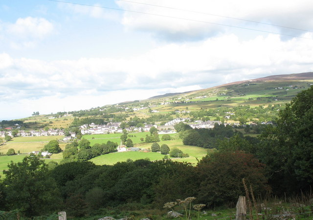 A View of Waunfawr from near Bryn-Mair.